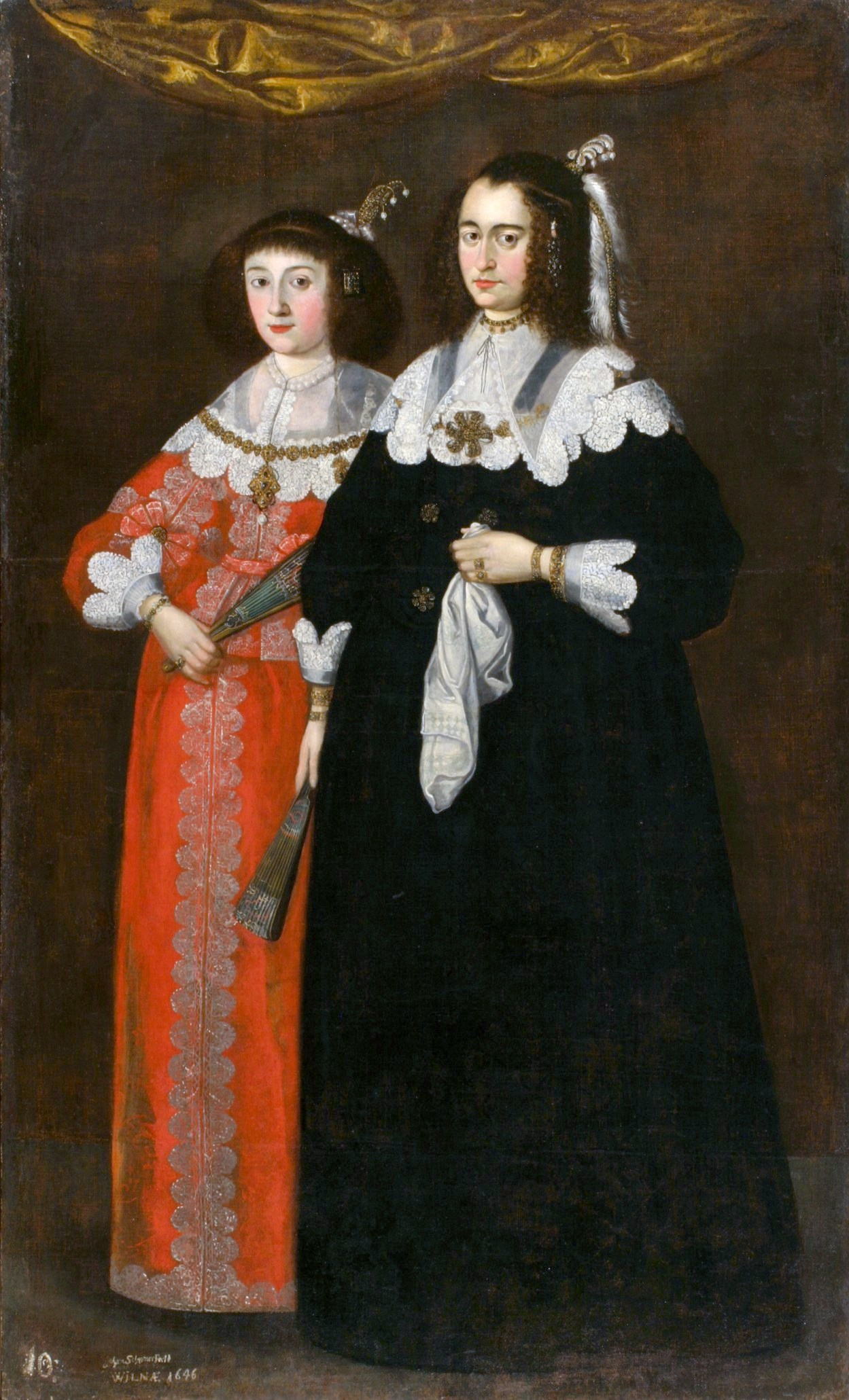 Portrait of Catherine Potocka and Maria Lupu (daughter of Vasile Lupu), two wives of Janusz Radziwiłł (1612–1655).